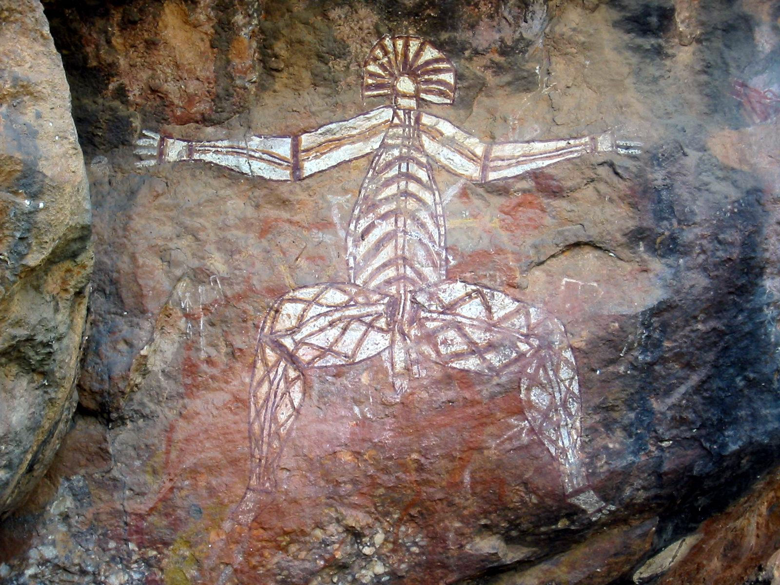 Aboriginal Rock Art, Anbangbang Rock Shelter, Kakadu National Park, Australia